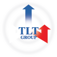 Logo of TLT Group